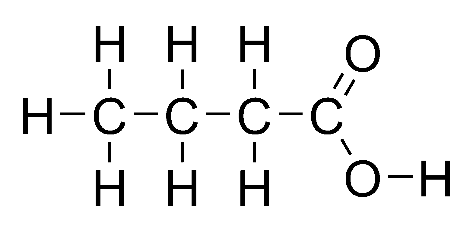 Flat connectivity structure of butyric acid